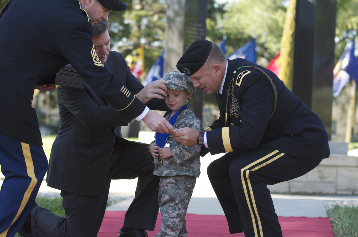 (From left) Command Sgt. Maj. Jim Thomson, Kansas Gov. Sam Brownback, and 1st Infantry Division Commanding General Maj. Gen. William Mayville present a medallion to Michael Cook Jr. III during a 9/11 remembrance ceremony at Fort Riley, Kan., Sunday. Cook’s father died serving with the division’s 2nd Heavy Brigade Combat Team in Iraq this June. U.S. Army photo by Sgt. Roland Hale, 1st Inf. Div. Public Affairs